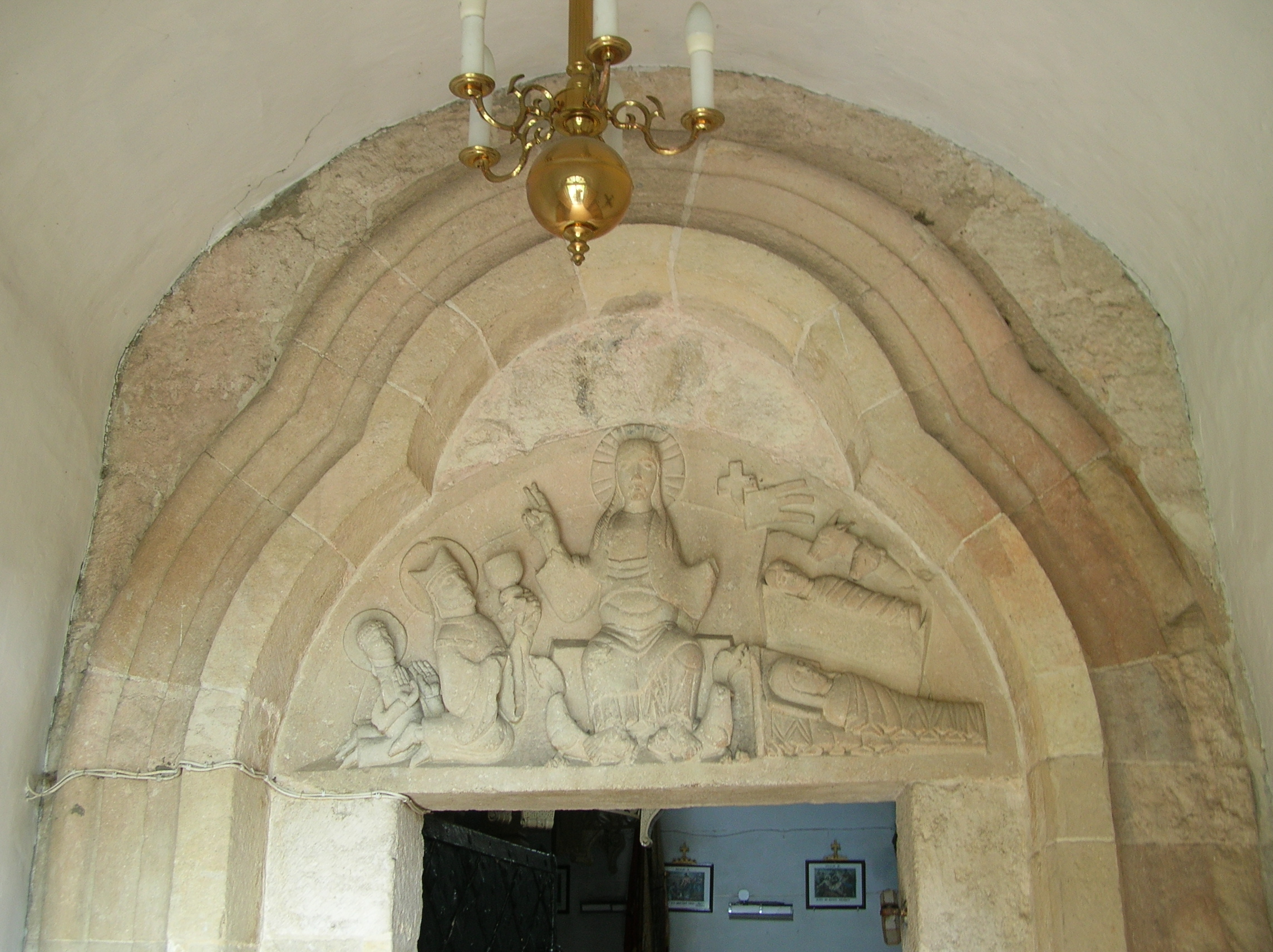 Tympanum in the church at Wysocice